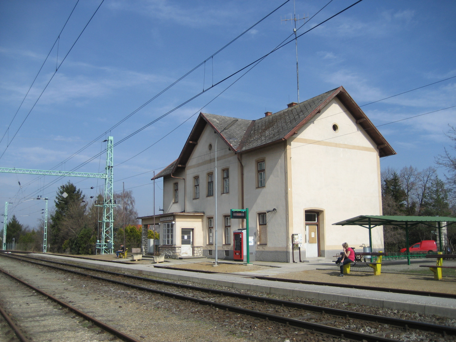 train station Frauenkirchen in Burgenland